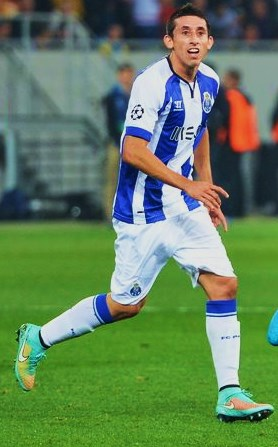 Héctor Herrera